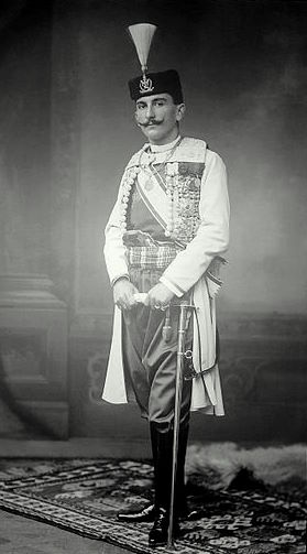 His Royal Highness Mirko Dmitrij Petrović-Njegoš, prince of Montenegro (later crown prince and Grand Duke of Grahovo & Zeta)